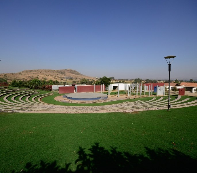 Sula Vineyards - Amphitheatre